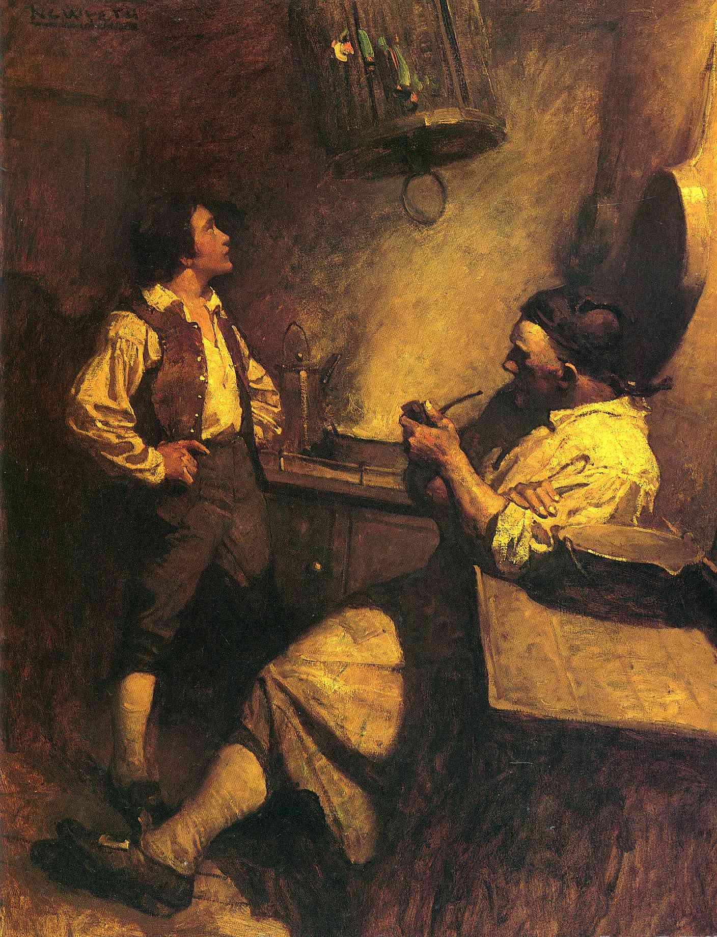 Jim Hawkins, Long John Silver and his Parrot